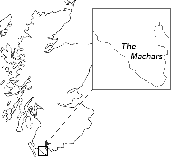 Outline map of Scotland, showing the location of the Machars